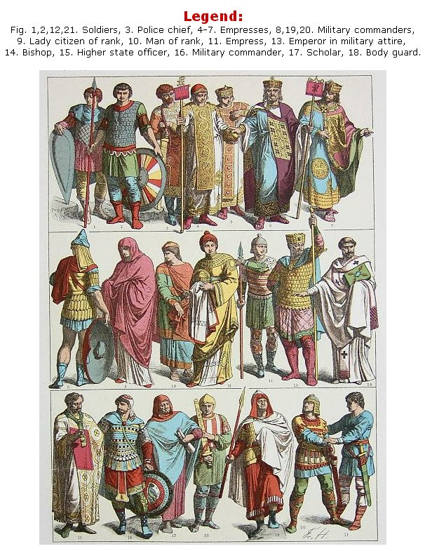 Byzantines, circa 700-1000 AD.